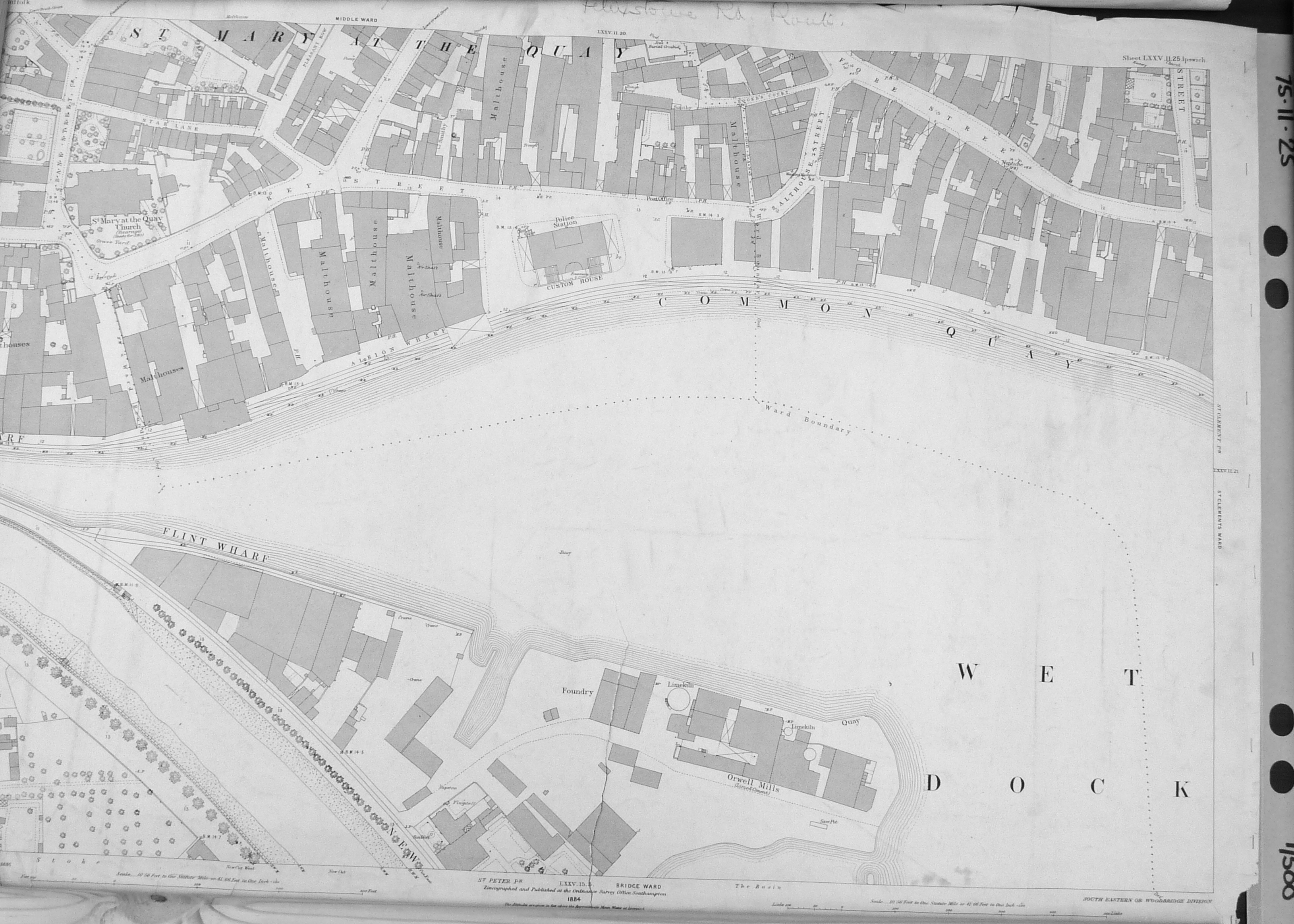 Map of Ipswich Dock showing the northern quays